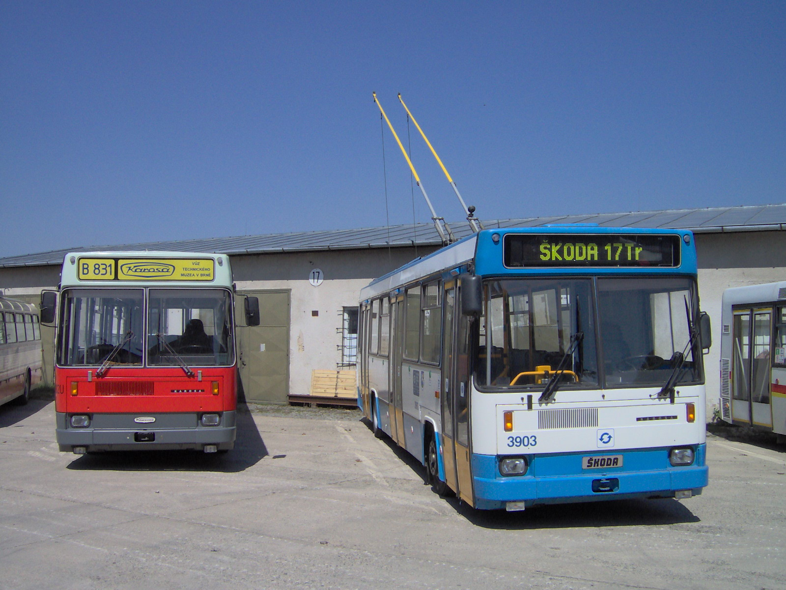 Historical bus Karosa B 831 and historical trolleybus Škoda 17Tr in Brno, Czech Republic